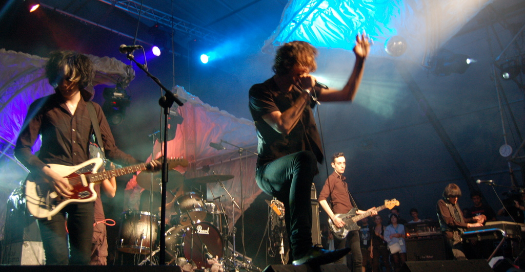 The Horrors at Benicassim.